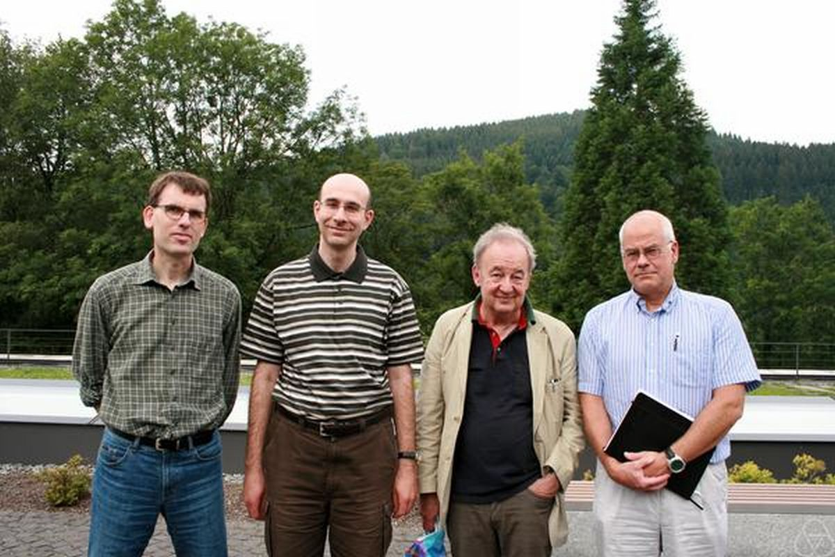 From left: Daniel Grieser, Iosif Polterovich, Thomas Hoffmann-Ostenhof, Michiel van den Berg, Oberwolfach 2012